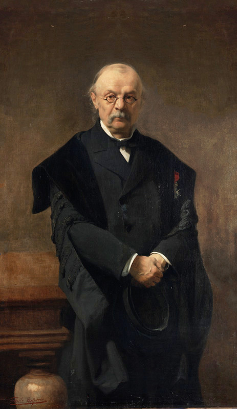 Eugène Charles Catalan, 19th century Belgian mathematician (1814-1894)